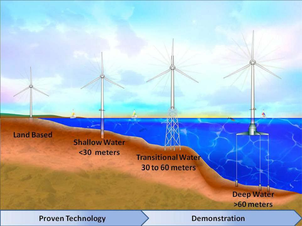 Progression of expected wind turbine evolution to deeper water. Produced by National Renewable Energy Laboratory.